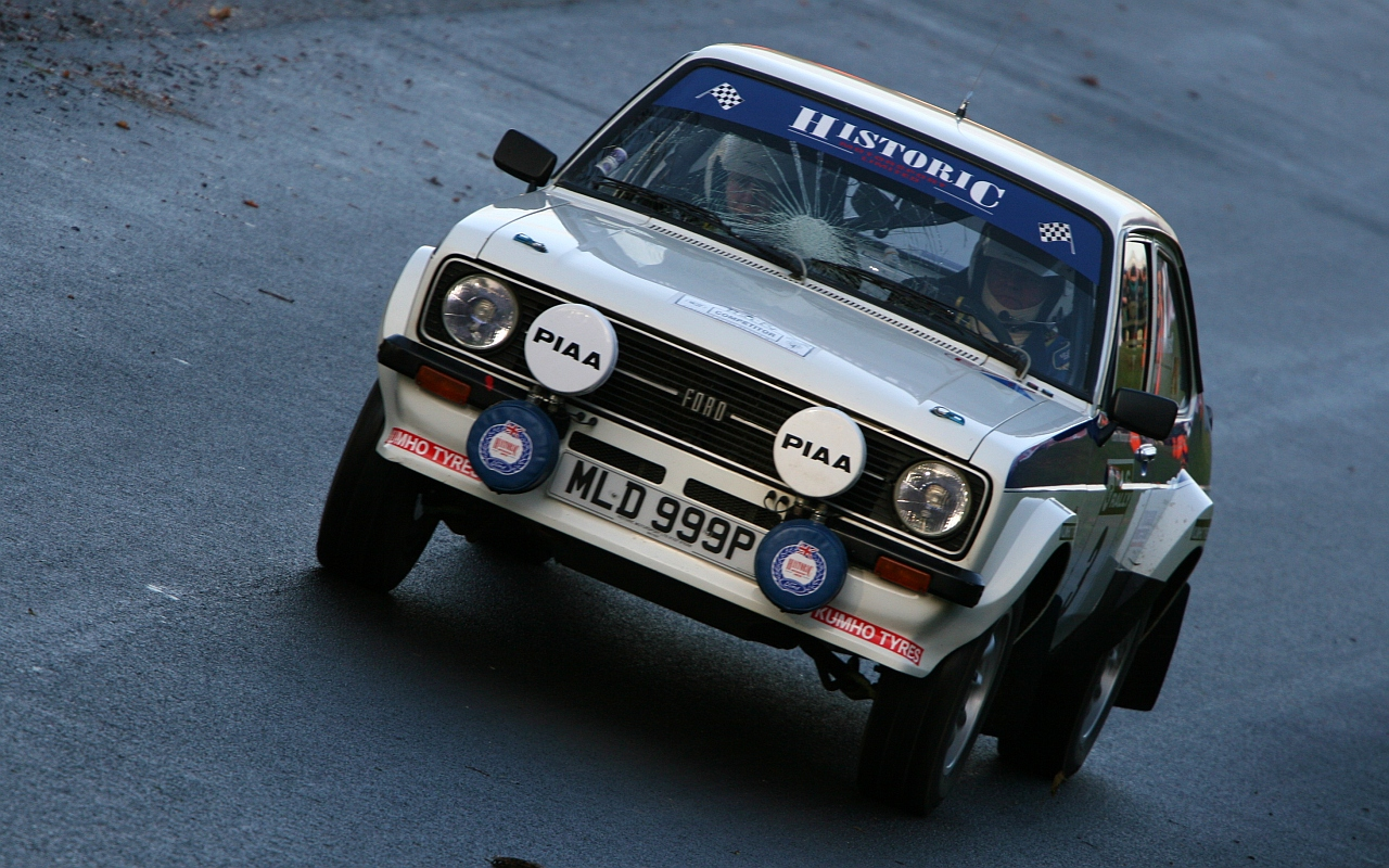 Stig Blomqvist with Ana Goñi at the RAC Rally in 2009